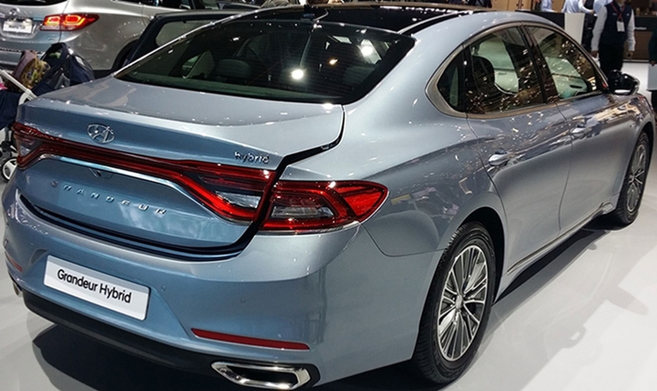 Hyundai Grandeur Hybrid